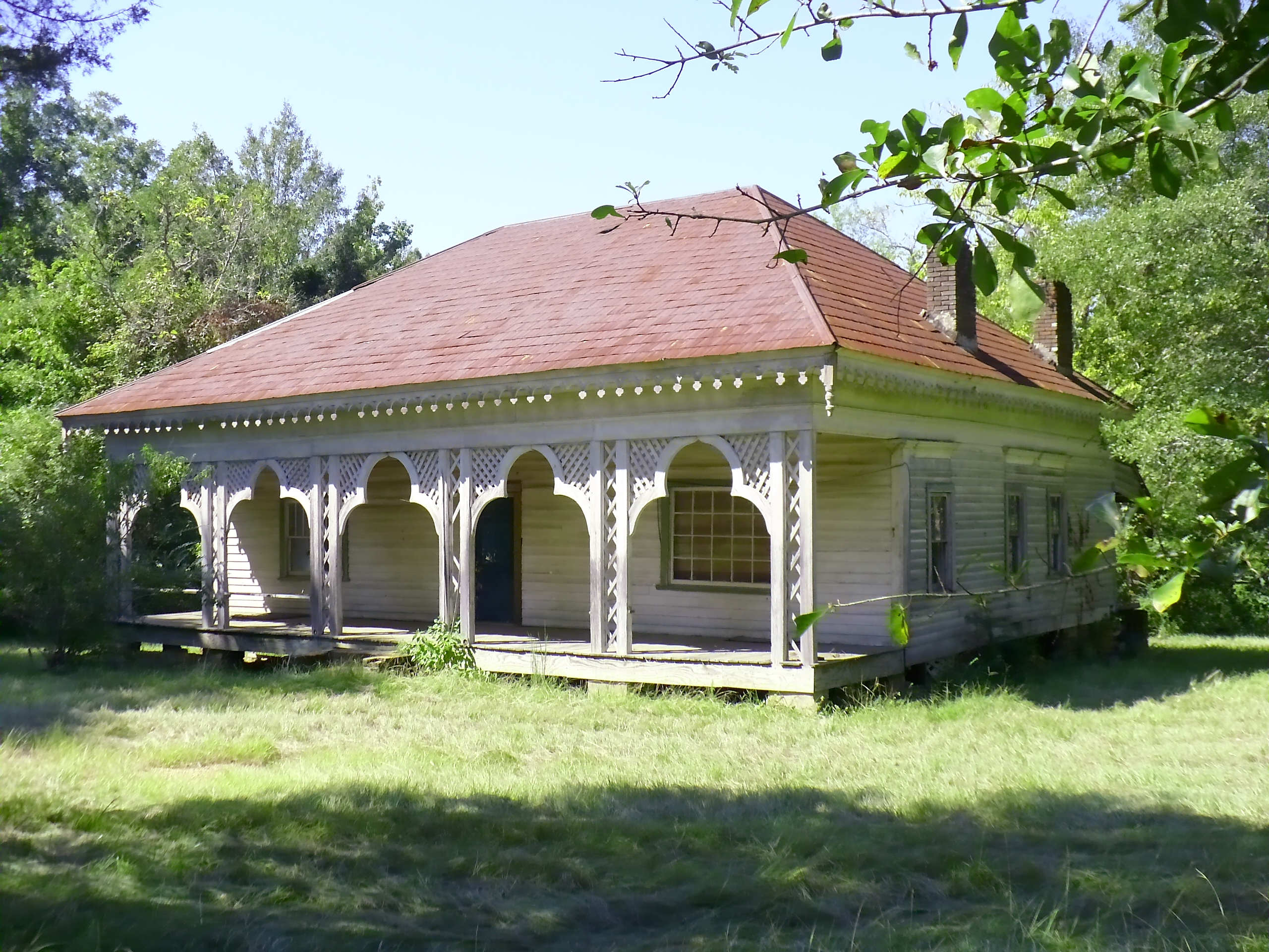 A vacant house at McKinley, Marengo County, Alabama. McKinley was Marengo County's second largest town before the American Civil War, but is now largely abandoned.